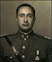 General Nematollah Nassiri (1911 — 16 February 1979), was the last director of SAVAK.